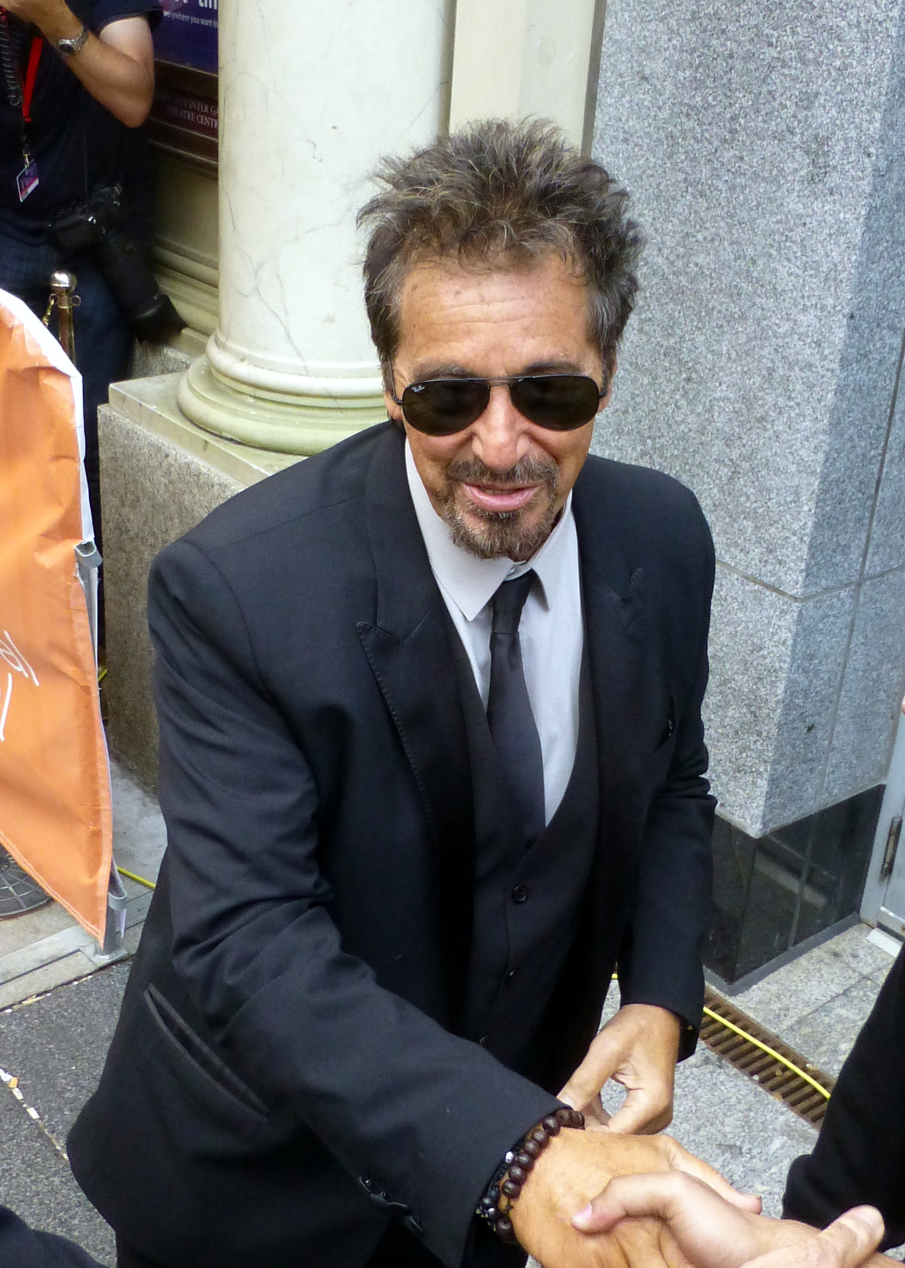 Al Pacino at the premiere of Manglehorn, 2014 Toronto Film Festival